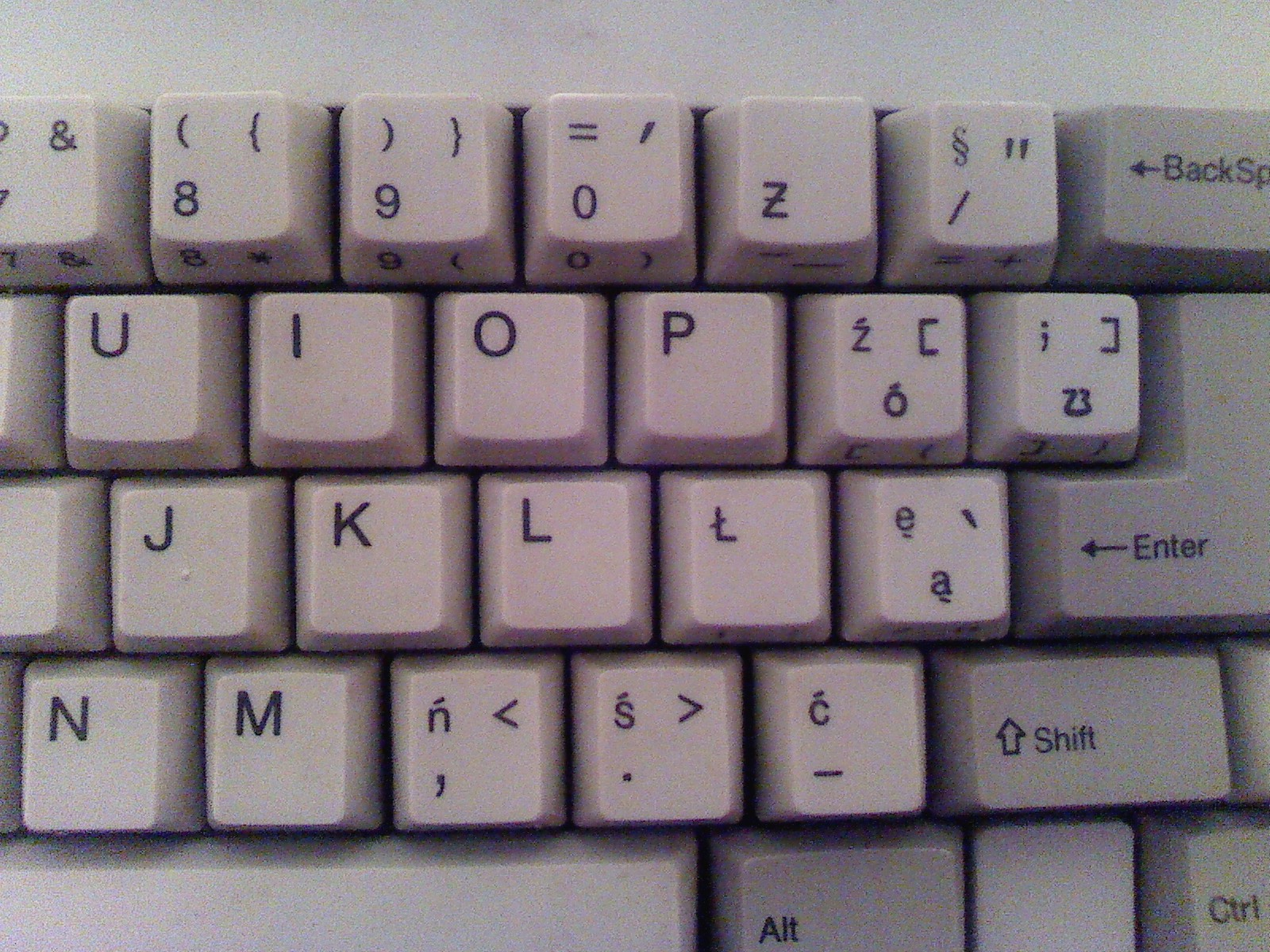 Polish layout on IPACO Mazovia-coded keybord